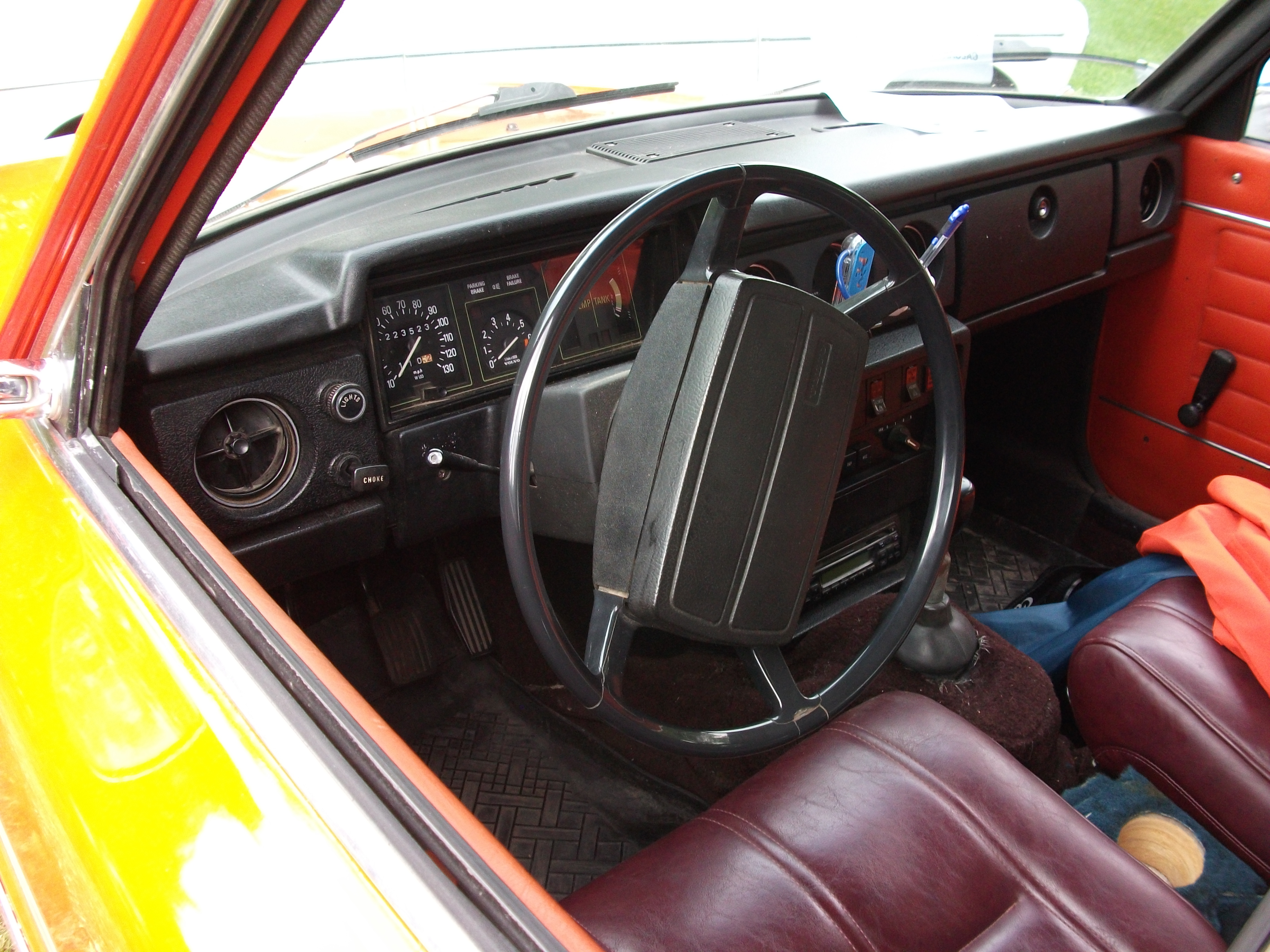 Great 1974 Volvo 144 in orange towing a trailer